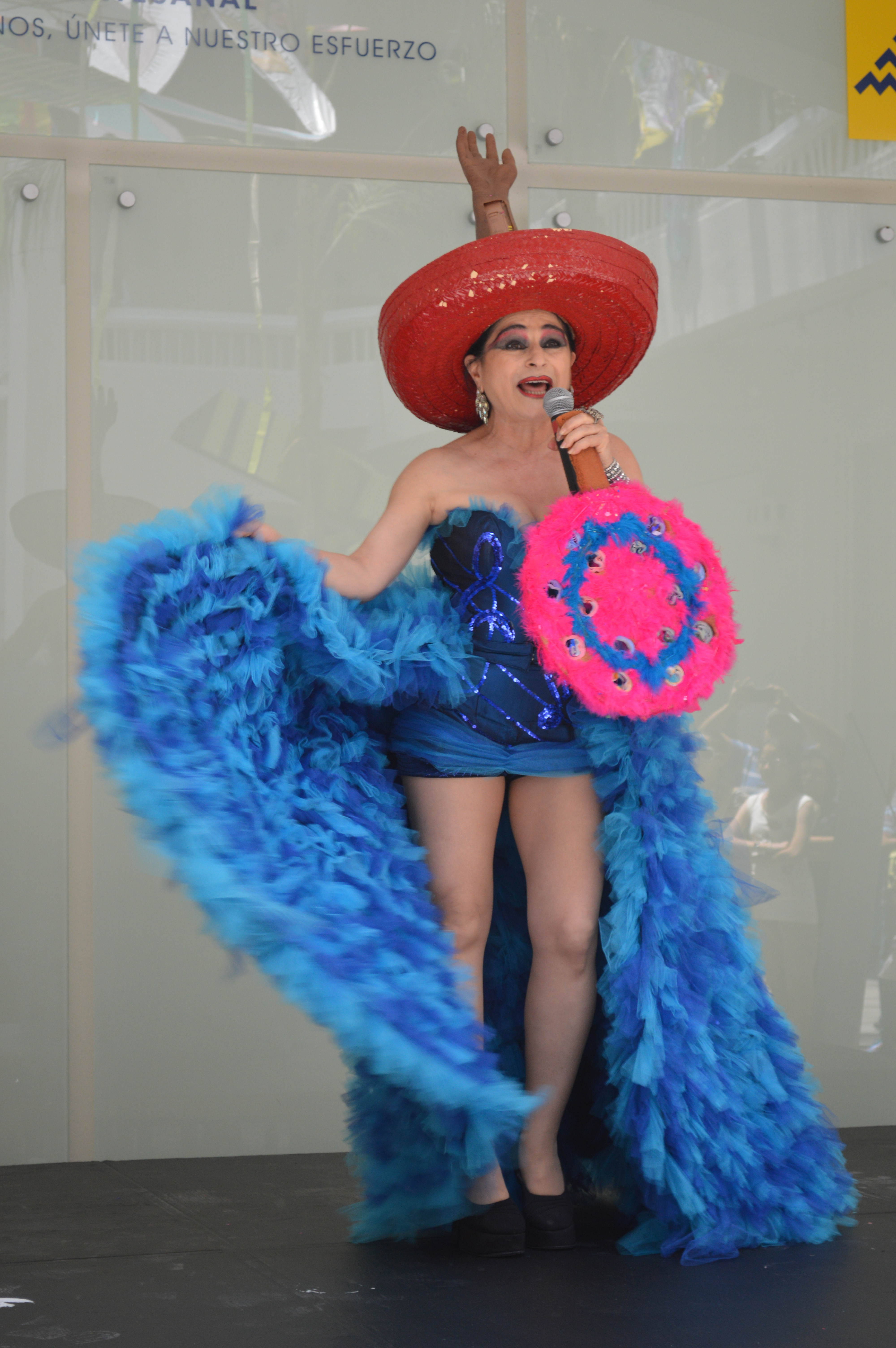 Astrid Hadid performing at the opening of Teatrines y Bataclanas at the Museo de Arte Popular in Mexico City